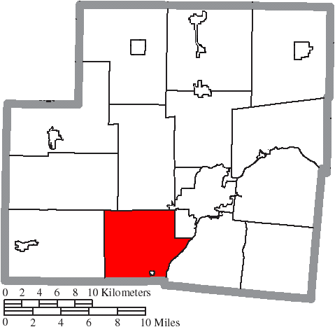 Map of the municipal and township boundaries of Shelby County, Ohio, United States, as of the 2000 census, with the location of Washington Township highlighted. Township borders are shown only in unincorporated areas in order to differentiate incorporated and unincorporated areas more clearly.